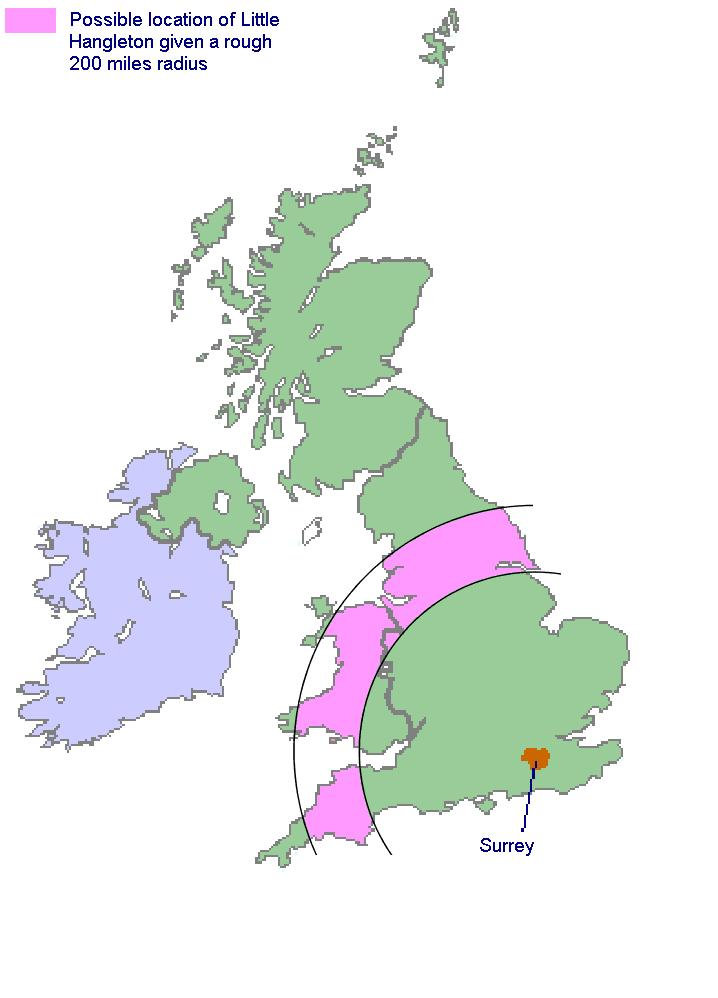 Map of the possible locations of Little Hangleton. It shows on a map of Great Britain the possible locations of the fictional place called Little Hangleton, from the Harry Potter series. The possible locations have been decided on the following information given in the first chapter of Harry Potter and the Goblet of Fire. Little Hangleton is roughly 200 miles away from Little Whinging in Surrey (last sentence of the chapter). Little Hangleton is in an English-speaking country (therefore not France or Belgium). We assume that this may not be exactly 200 miles and that JKR made an approximation. This is my own creation and I hereby release all rights for it into the public domain. Lgriot 18:24, 30 April 2006 (UTC)